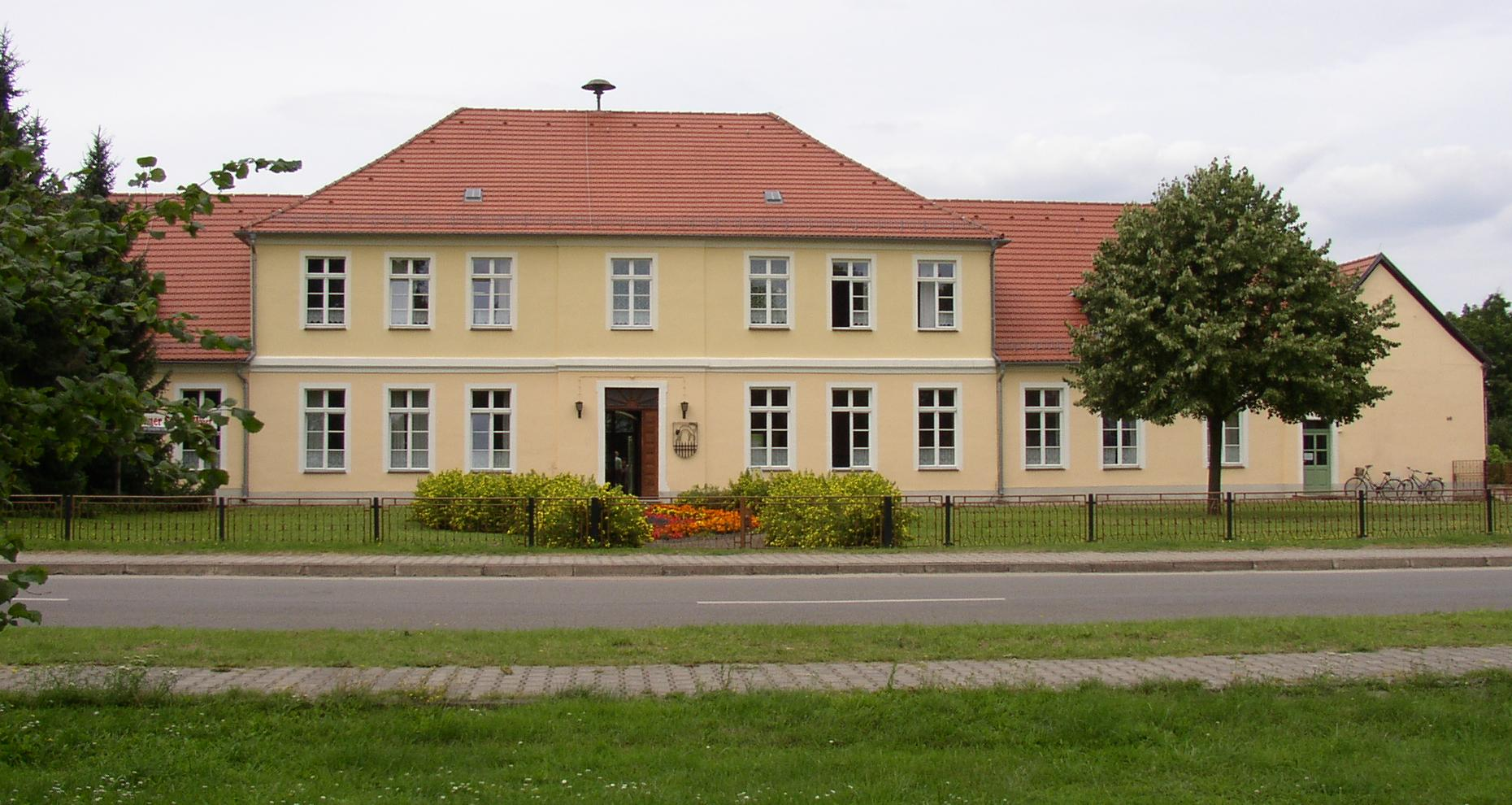 Manor in Wust in Saxony-Anhalt, Germany